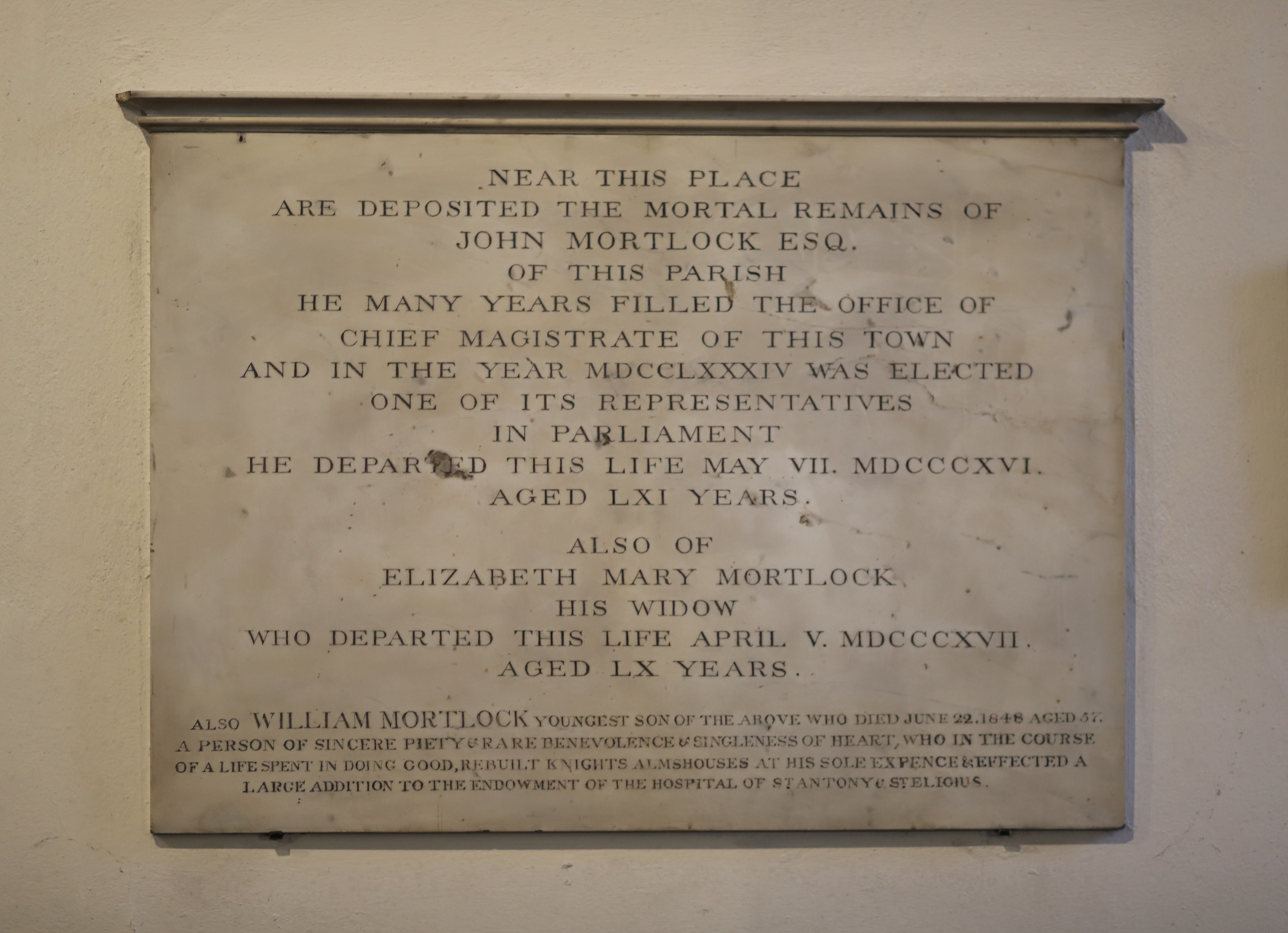 Memorial to John Mortlock (1755–1816) in St Edward's Church, Cambridge, England